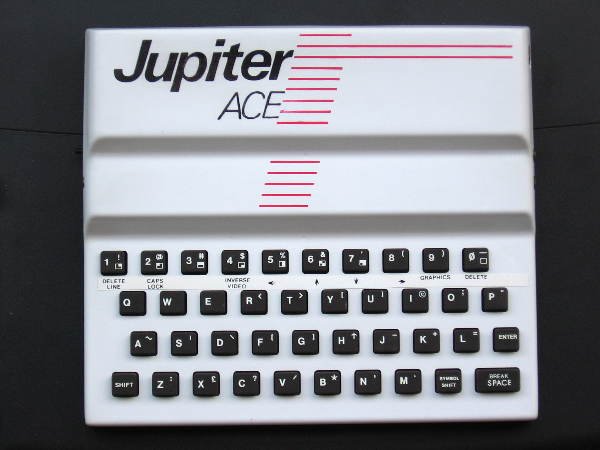 Jupiter ACE restored to its original look